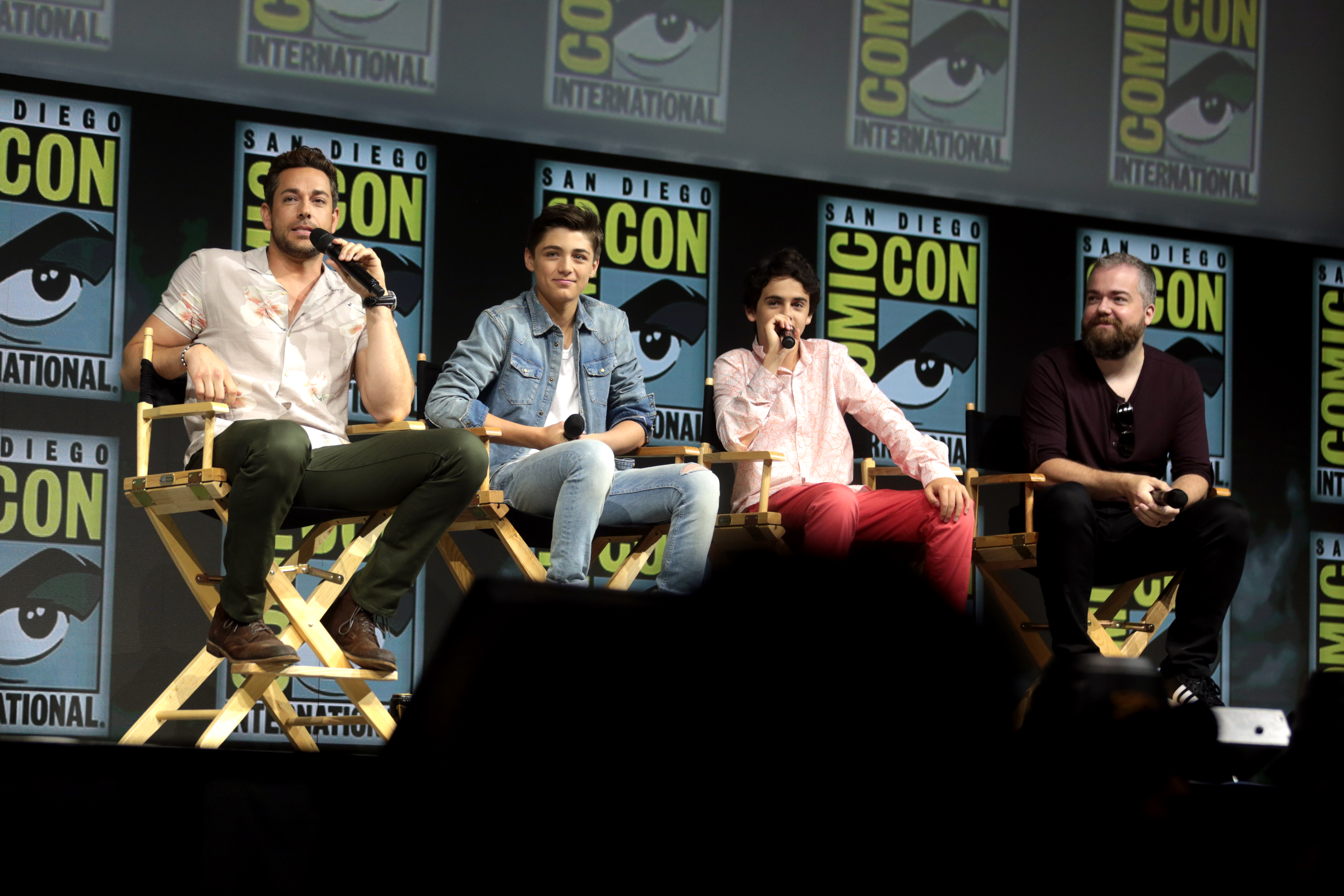 Zachary Levi, Asher Angel, Jack Dylan Grazer and David F. Sandberg speaking at the 2018 San Diego Comic Con International, for "Shazam!", at the San Diego Convention Center in San Diego, California.